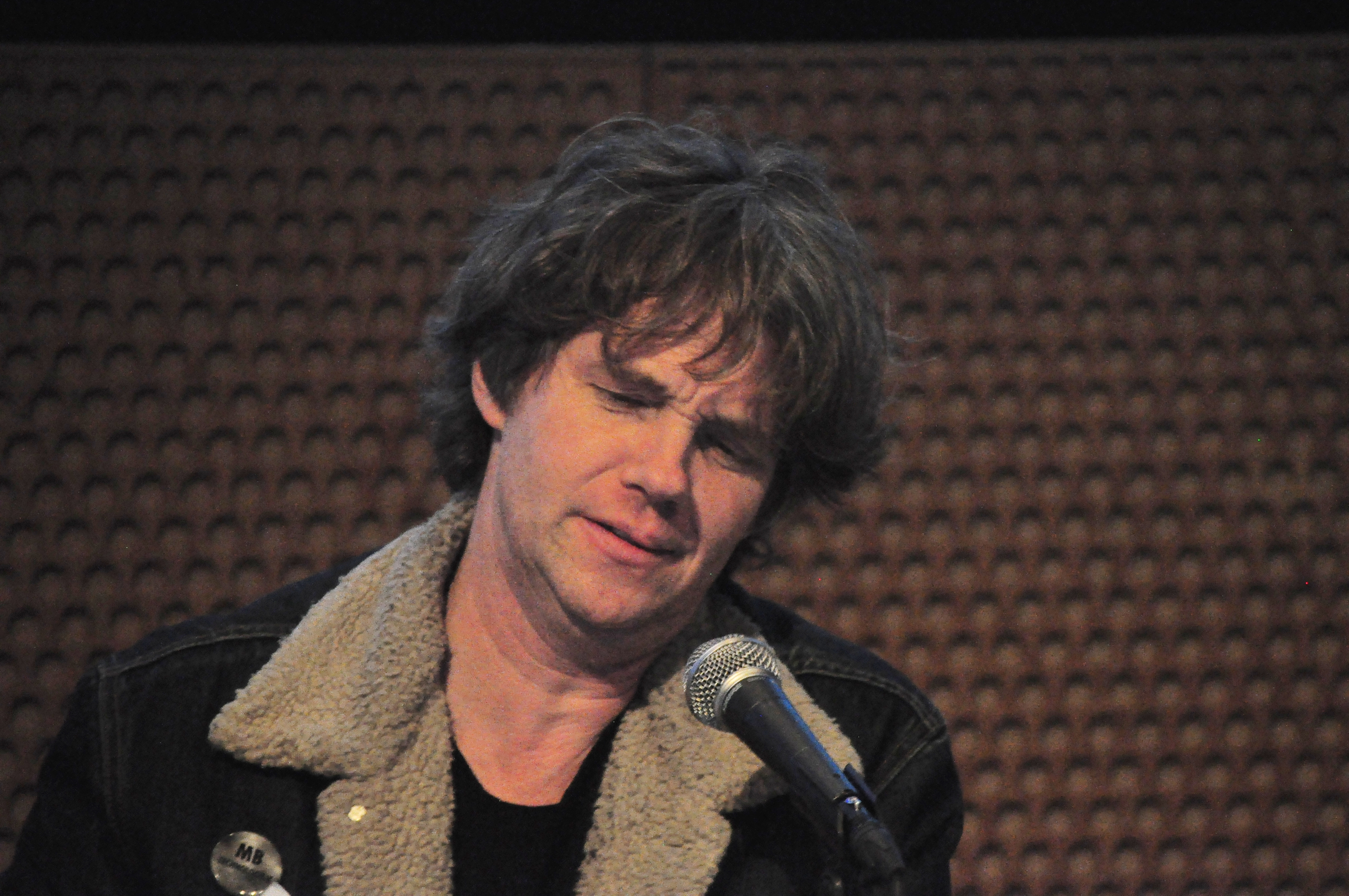 Chris Brokaw as Joe Walsh in Tom Kipp's playlet “Yacht Rock”, episode #13: “Spent the last year…Thunder Island Way!” at the 2014 Pop Conference, EMP Museum, Seattle, Washington, U.S.